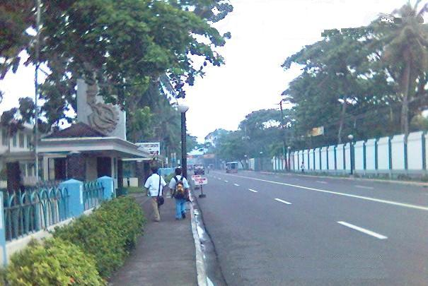 Rizal Street, Legazpi Bicol University (Main Campus) on the left. Camp General Simeon Ola Headquarters and the Bicol Heritage Park on the right.